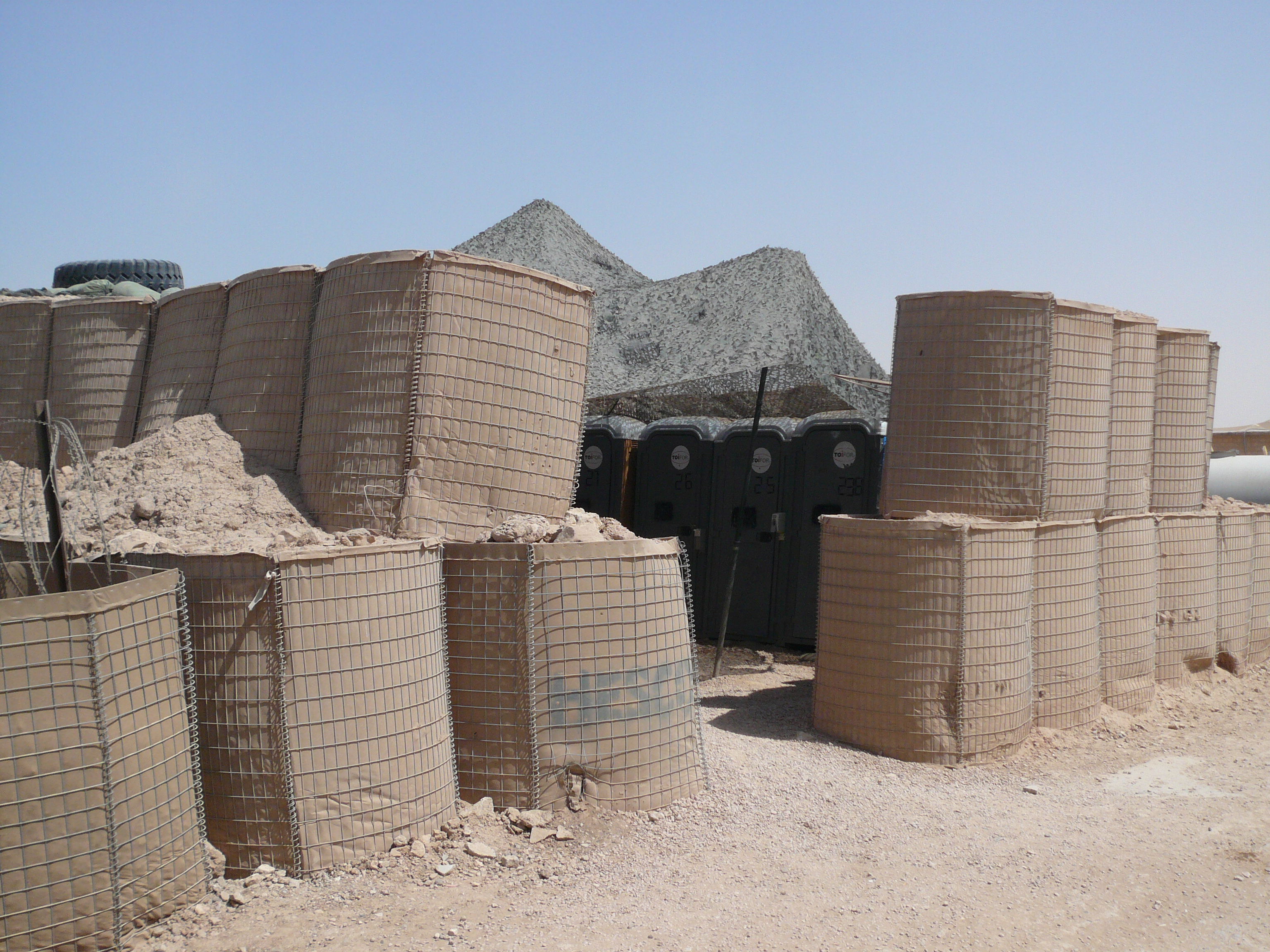 These sets of 4 foot Hesco Bastions stacked two high provide protection for the occupants of these Porta-Johns against incoming mortar attacks at a US installation in Iraq. Taken by Andy Patton 18JUN07